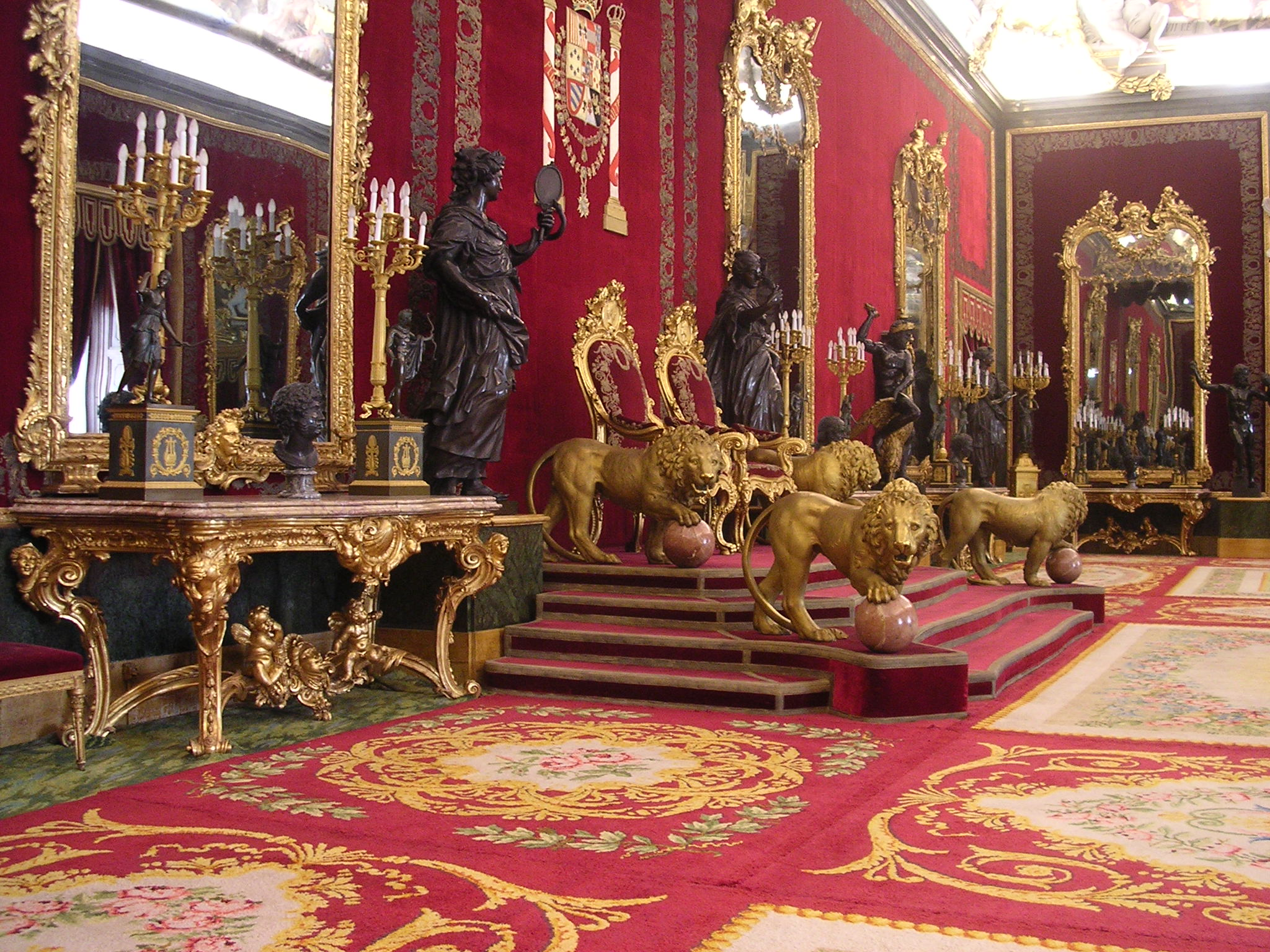 The Throne Room of the Royal Palace of Madrid.